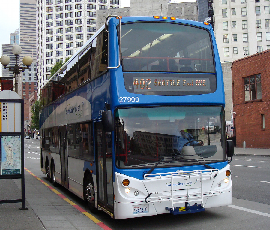 Community Transit's demo Alexander Dennis Enviro 500, nicknamed the "Double Tall."